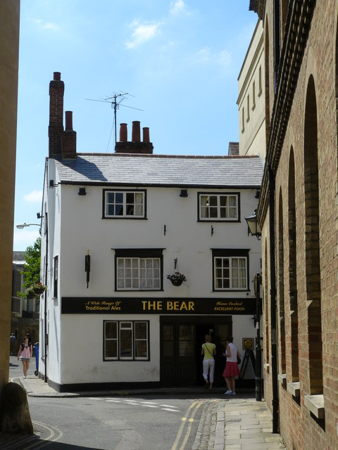 The Bear Inn, Alfred Street, Oxford